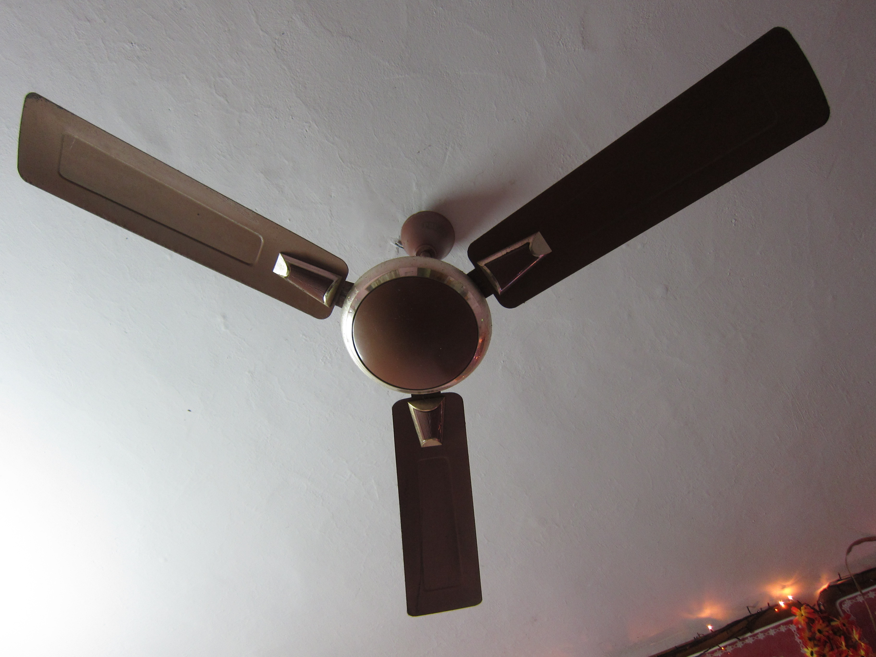 Fan - പങ്ക